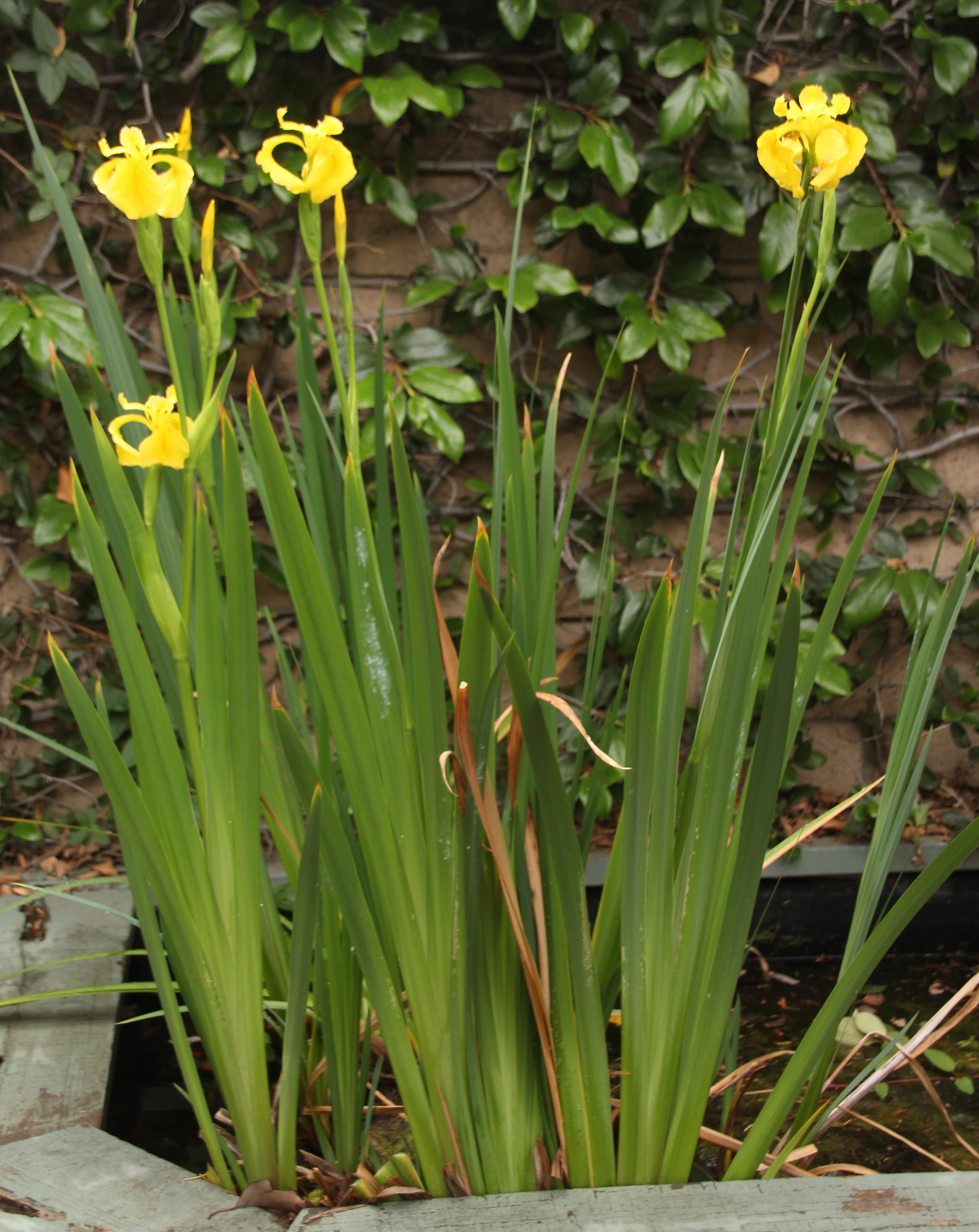 Iris pseudacorus (yellow flag, yellow iris, water flag, lever) plant